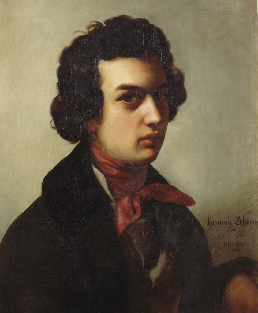 Portrait of the sculptor Louis-Michel-Victor Mercier (1810-1894) by Henri Lehmann, 1832 Private collection, Seville